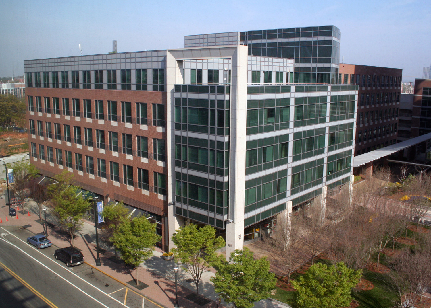 The Technology Square Research Building (TSRB) at Technology Square. Home to the GVU Center.